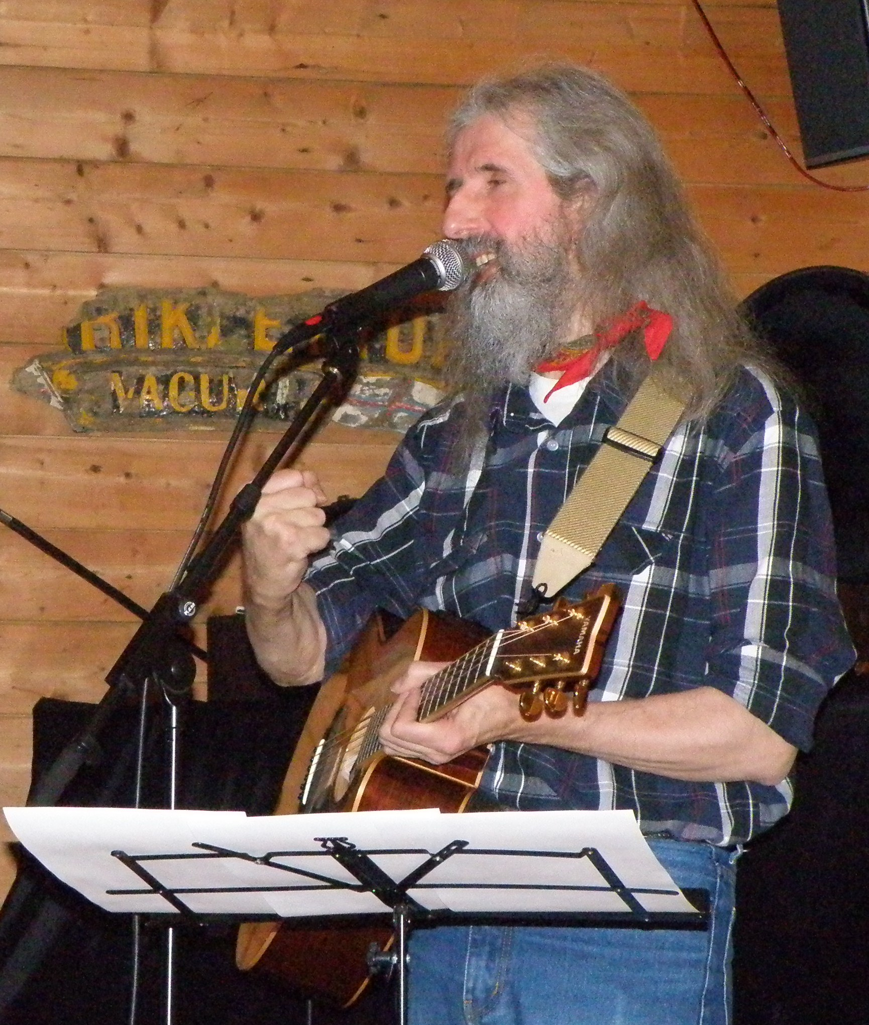 Hanus G. Johansen is a folk singer from Klaksvík in the Faroe Islands. He is also a composer and guitar player. He has composed melodies to many of the poems of Poul F. Joensen, who was a Faroese poet from the village Sumba in Suðuroy (he lived most of his life in another village in Suðuroy, Froðba). The poems of Poul F. became well known also by people who normally don't read poems, after Hanus G. Johansen released his first album with poems by Poul F. Joensen, which Hanus composed melodies to and sang with his special voice in his album "Hanus syngur Poul F.". Hanus has also released a CD with poems of a Norwegian poet, Jacob Sande, he sings in Norwegian on the album, he has composed all of the melodies on the album. This photo was taken at the Stóra Pakkhús (The Large Storage House) in Vágur in Suðuroy. He had a solo concert and he performed poems by Poul F. Joensen and by Jacob Sande. The photo was taken on 20 March 2010. Føroyskt: Hanus G. Johansen syngur og spælir guitar í Stóra Pakkhúsi í Vági á hesi myndini. Hann framførdi sangir, sum hann sjálvur hevði skrivað løg til yvir yrkingar hjá føroyska skaldinum Poul F. Joensen og hjá norska skaldinum Jacob Sande. Myndin er tikin 20. mars 2010.